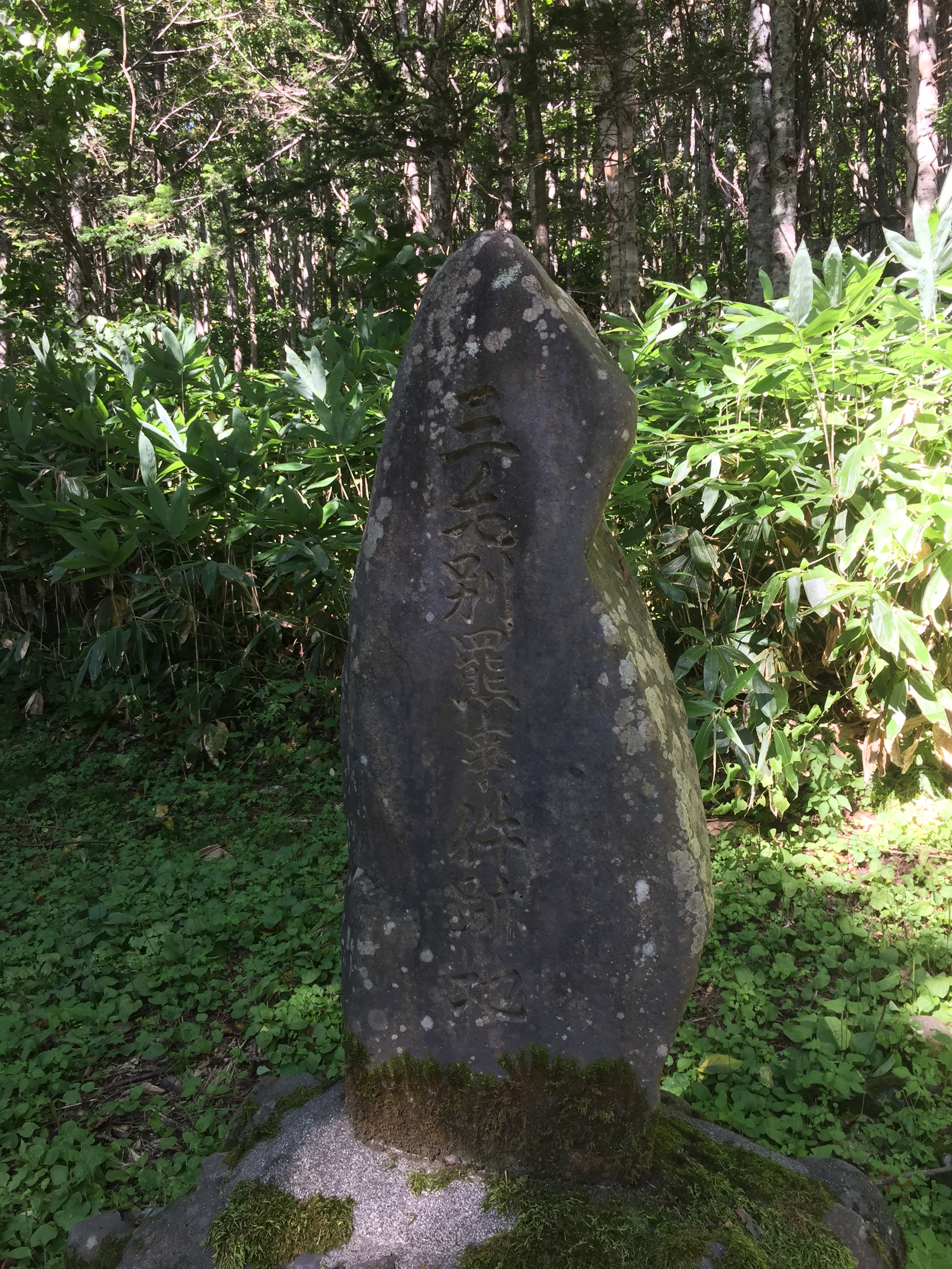 Sankebetsu Brown Bear Incident Memorial Monument